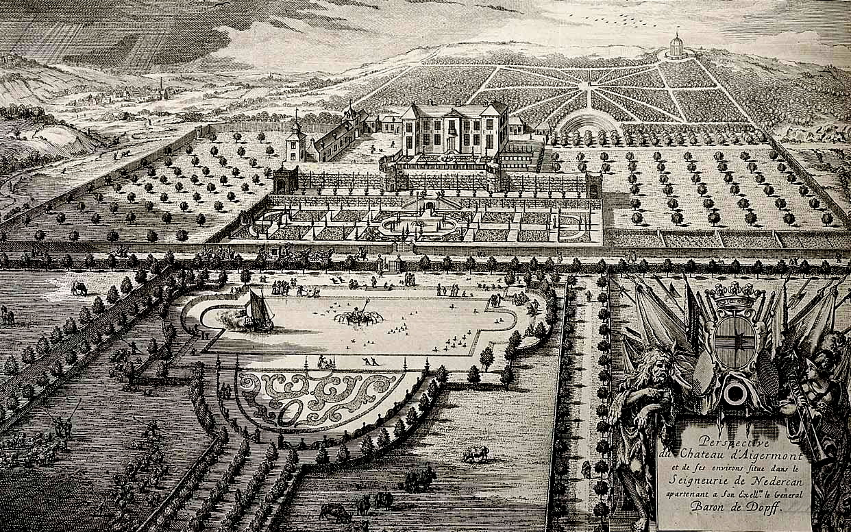 Maastricht, the Netherlands. View of Neercanne Castle, also known as Agimont or Aigermont. 18th-century print.